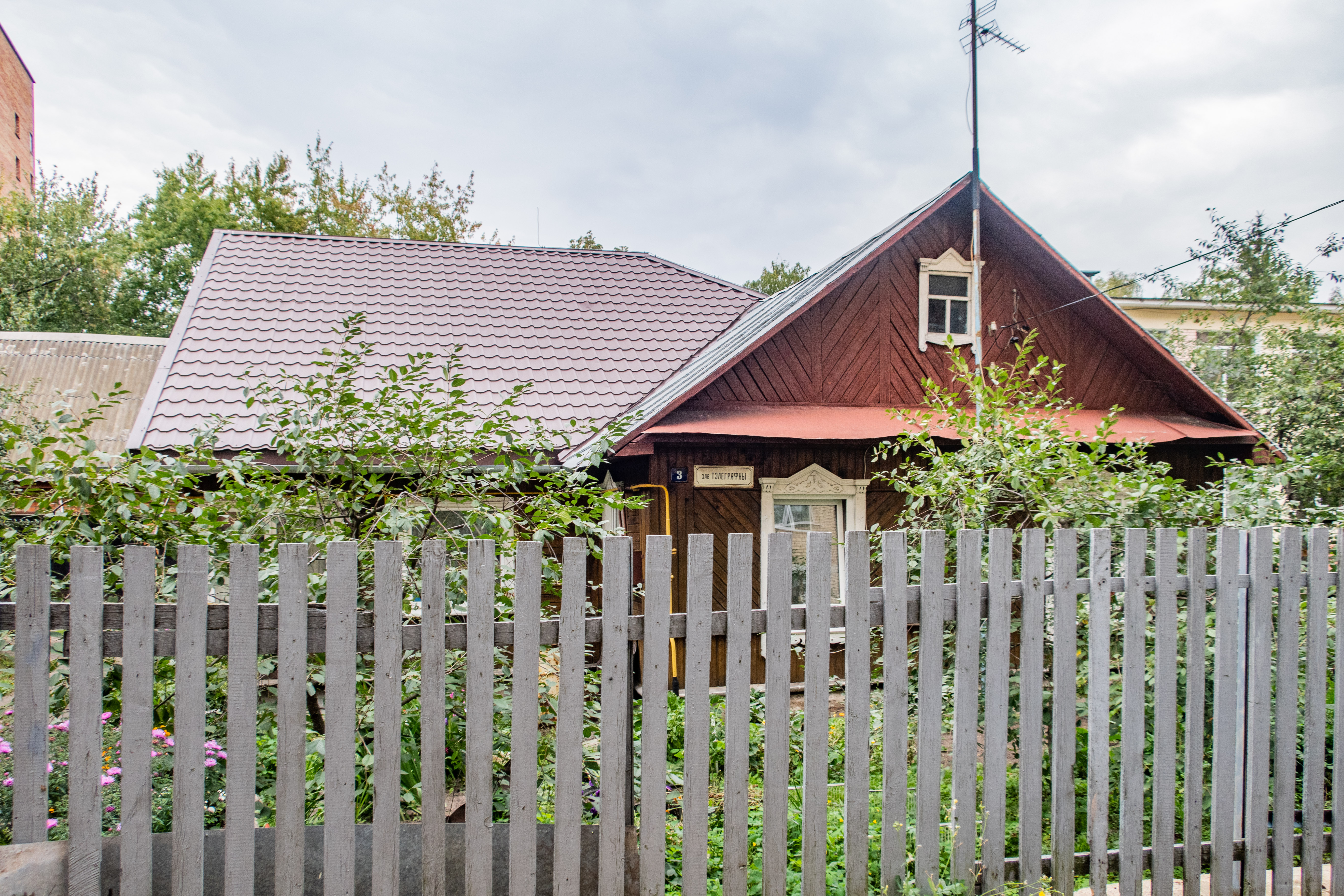 Teliehrafny lane. Minsk, Belarus